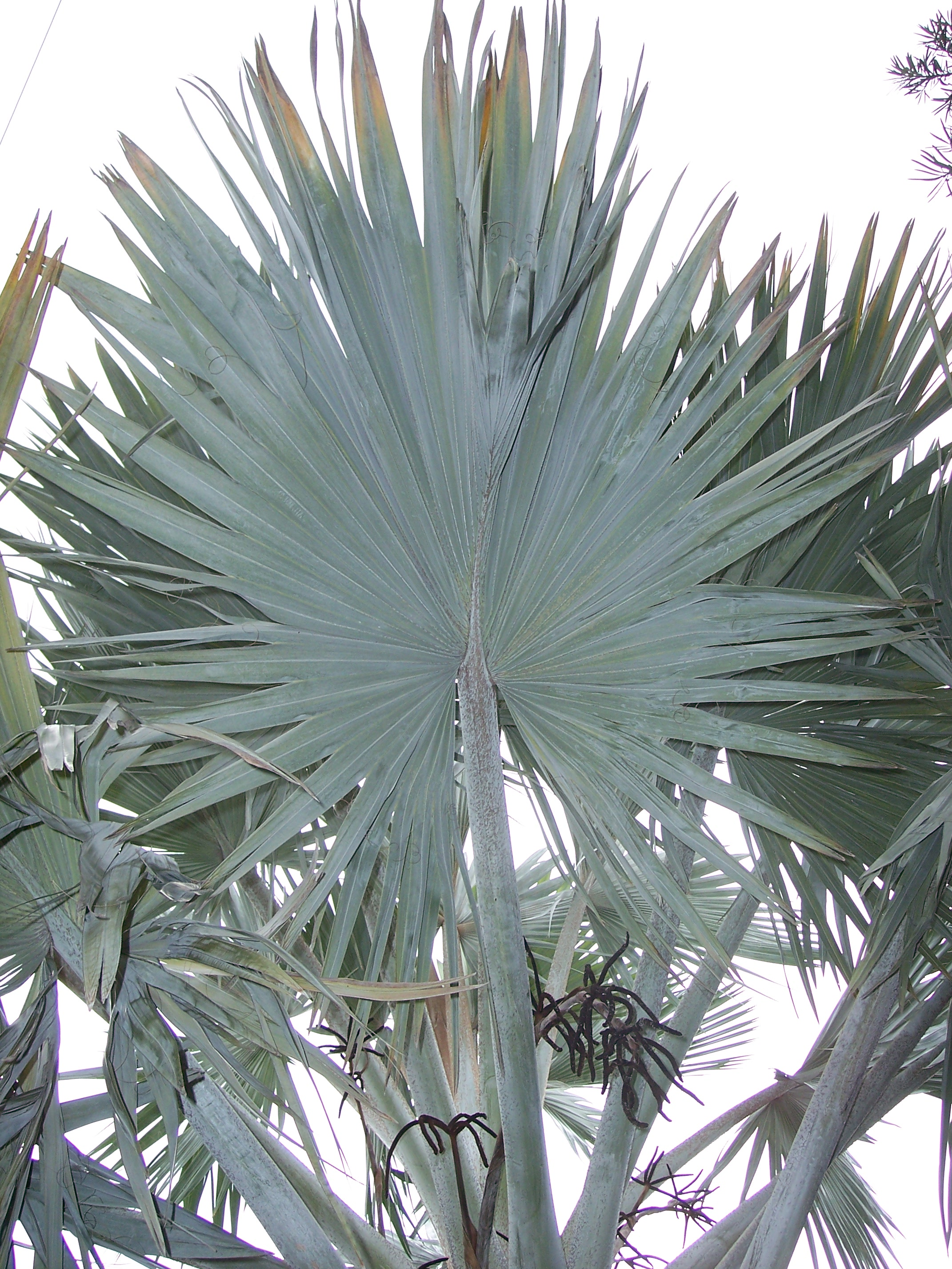 Bismarckia nobilis foliage and inflorescences in Tampa, Fl.